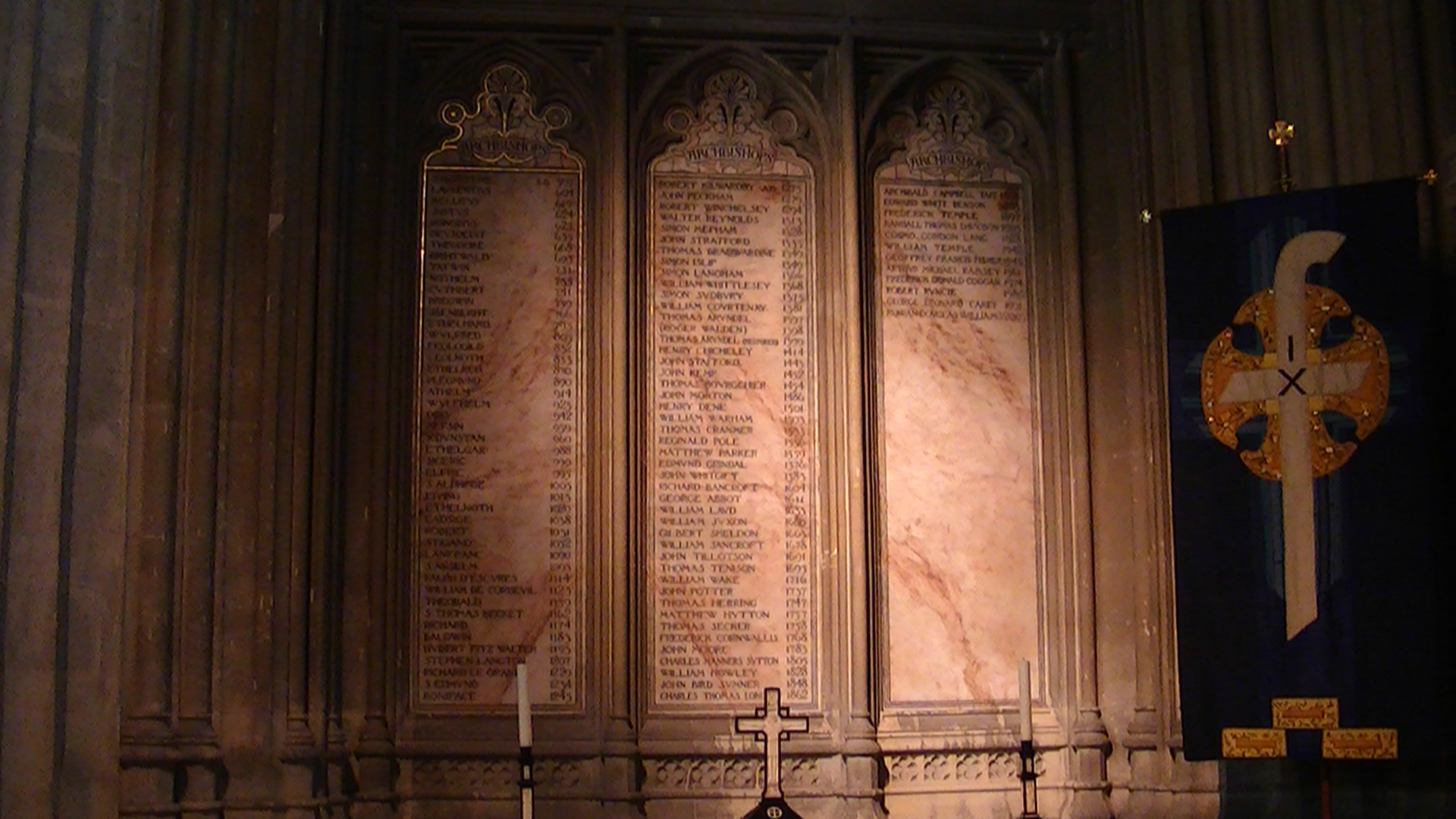 List of archbishops of Canterbury in Canterbury Cathedral